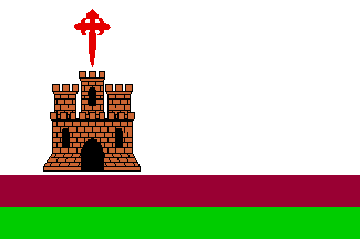 Flag of the city of Bullas, Murcia, Spain